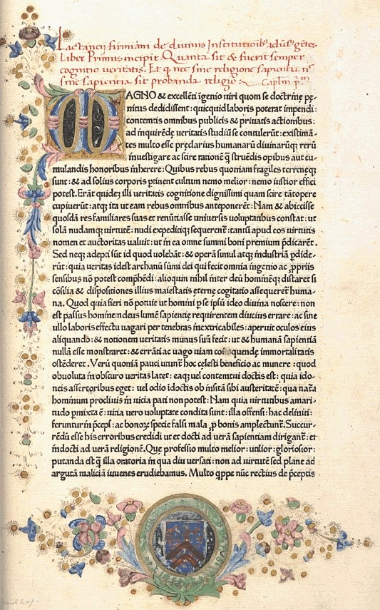 Page from the Divinae institutiones by Lactantius, editio princeps, printed by Pannartz and Sweynheim in 1465.